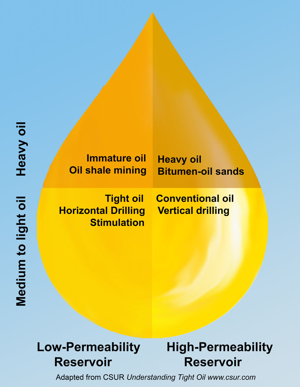 Adapted from CSUR "Understanding Tight Oil" using Adobe Photoshop